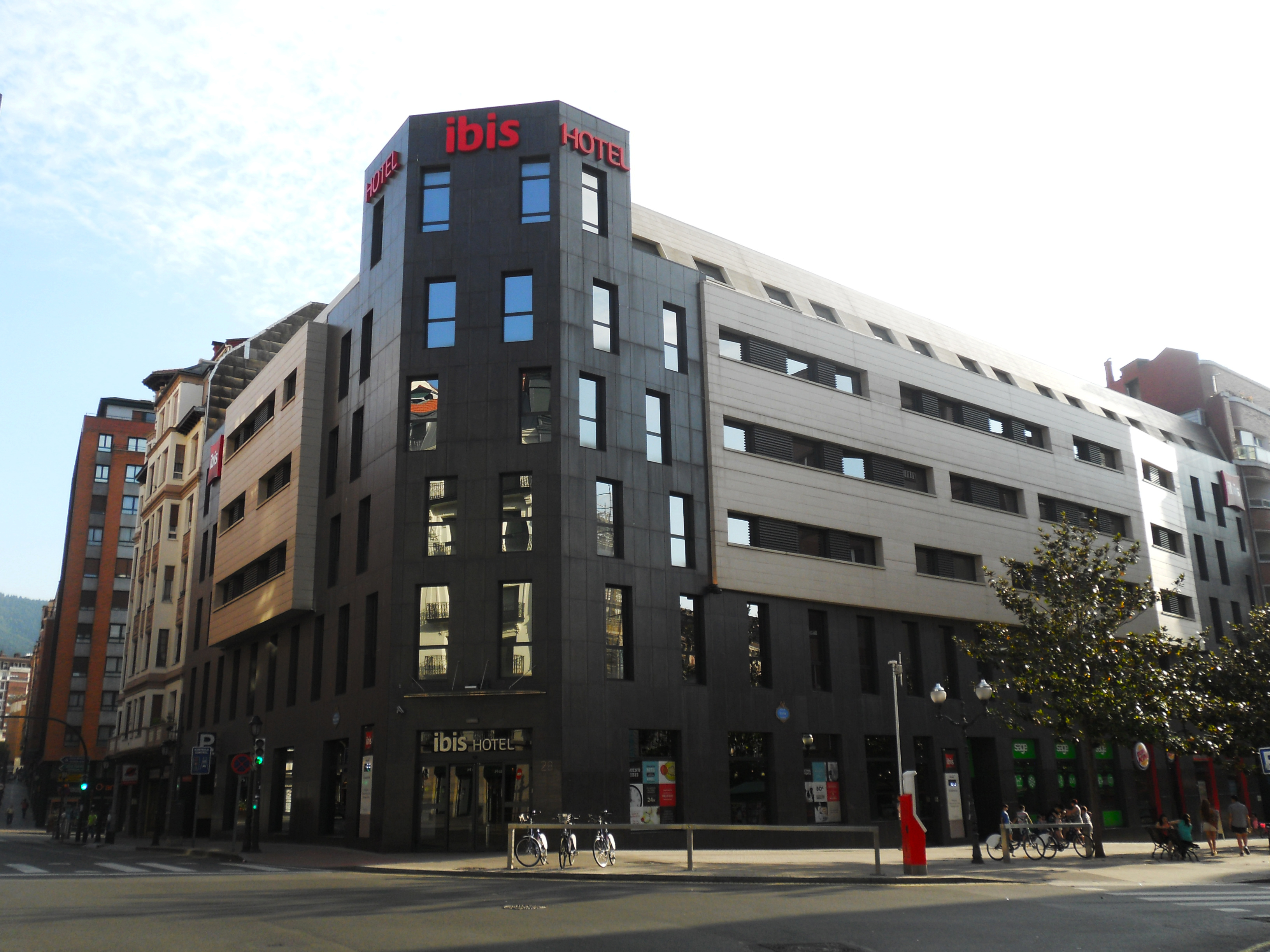 Ibis Hotel in Bilbao (Spain).